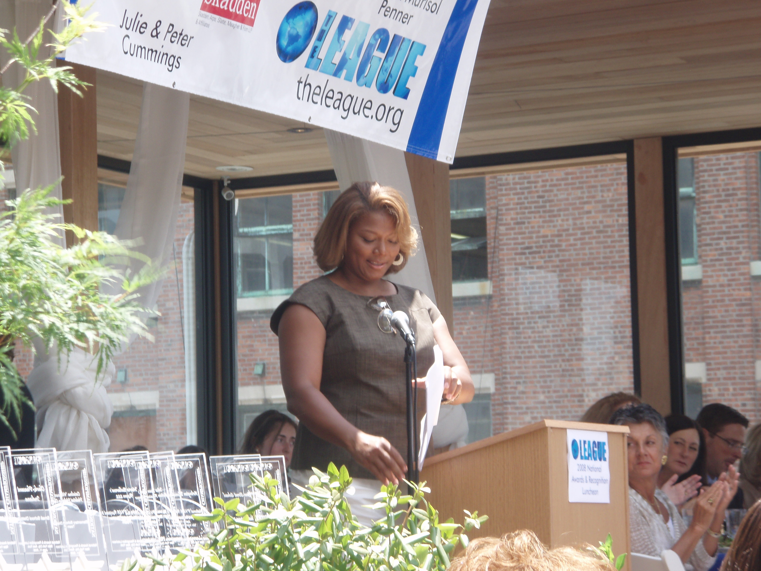 Musician, television and film actress, author and entrepreneur. Luncheon Host at the LEAGUE National Awards and Recognition Luncheon 2008